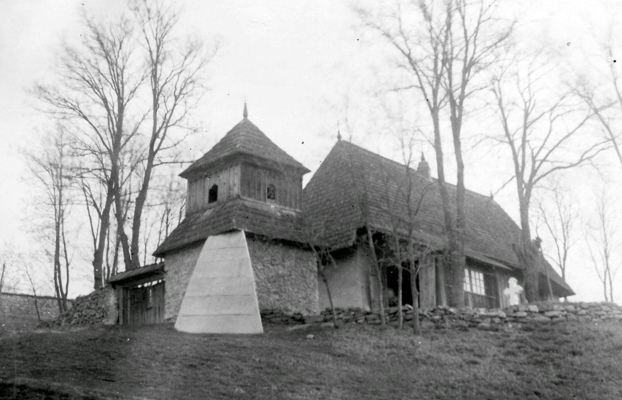 Churh in Culeuți, Zastavna, Ukraine (image from the archive of the Metropolitan of Moldavia, 1936, free of copyright)